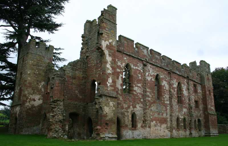 Acton Burnell Castle.